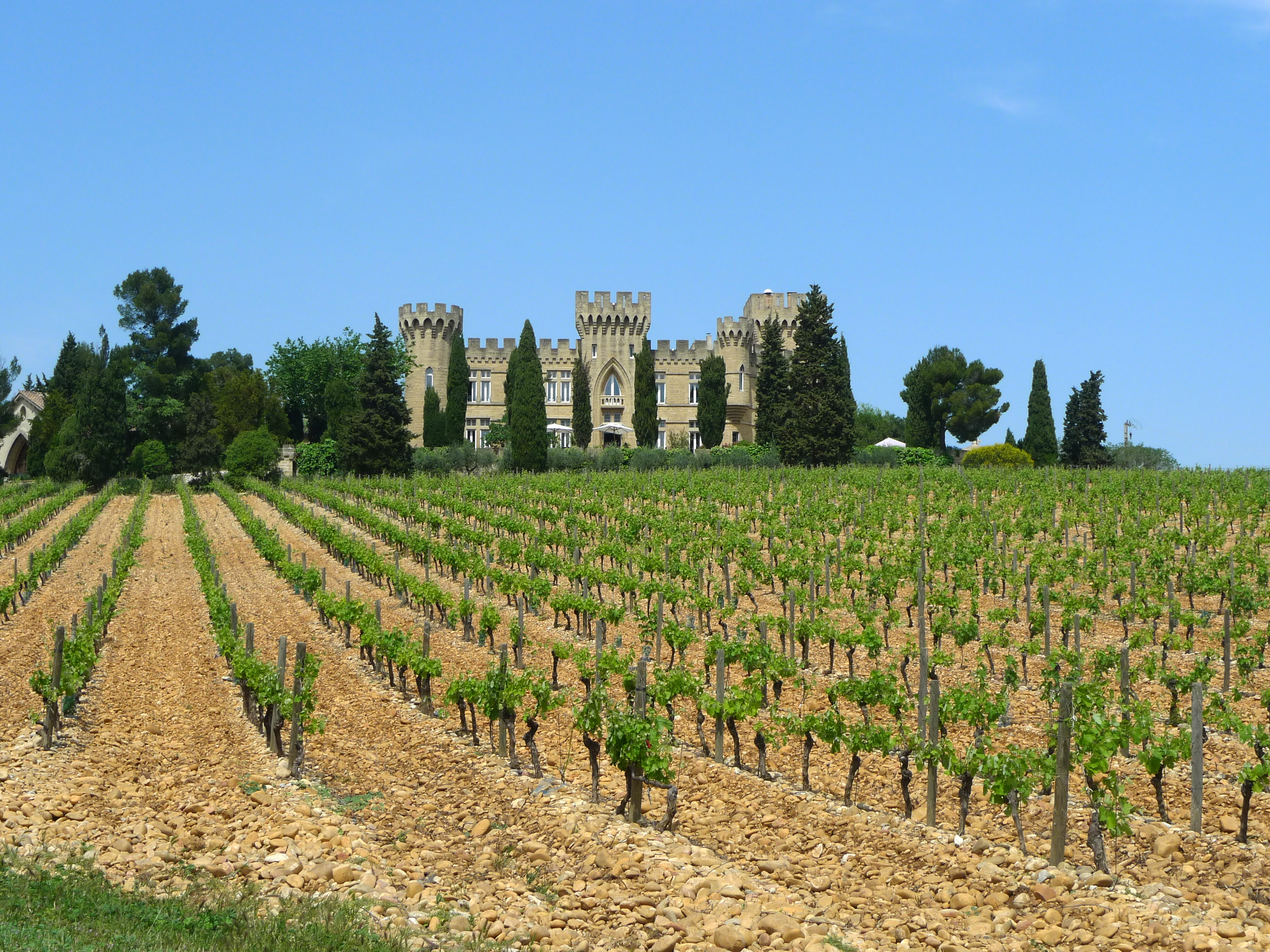 Fines-Roches Castle and vineyard, Châteauneuf-du-pape, Vaucluse, France.